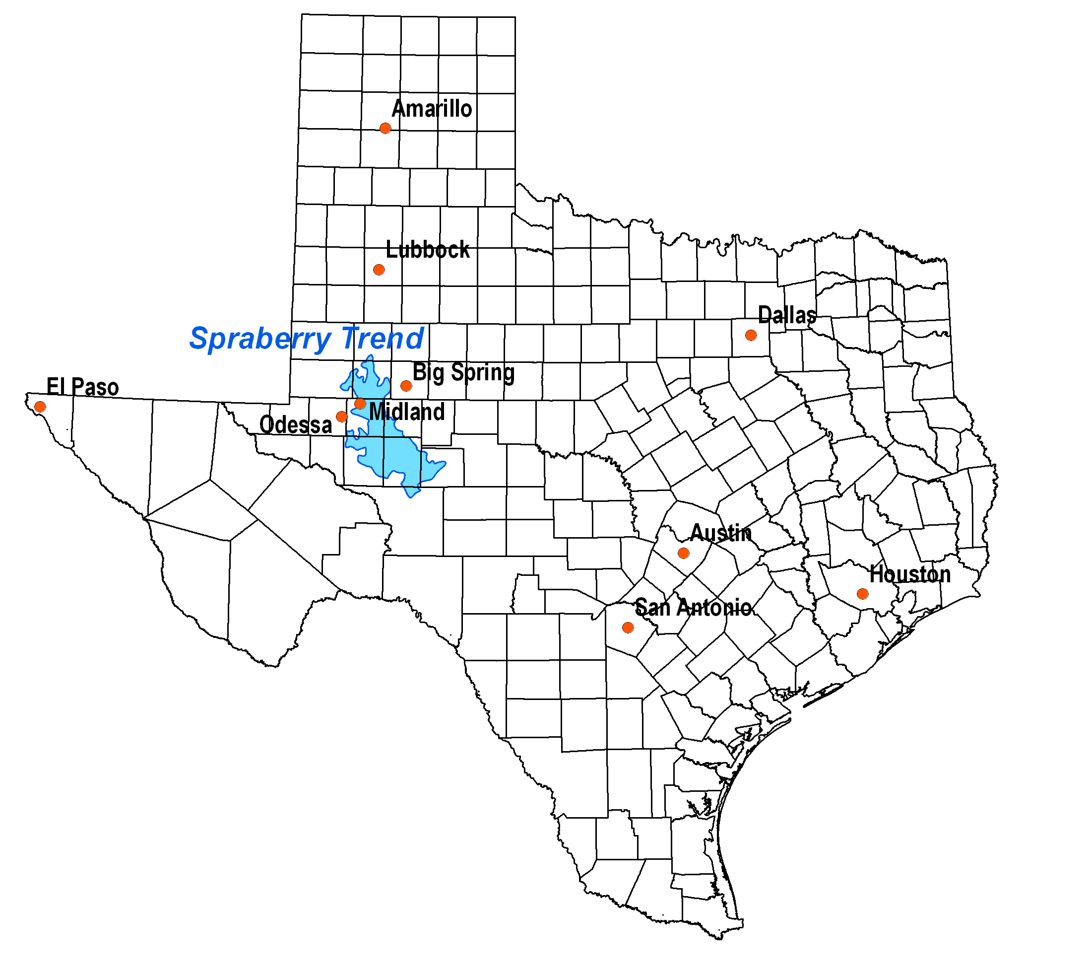 Location of the Spraberry Trend in Texas, with major and nearby cities. All data on this map is in the public domain; created by me in ArcGIS 9.3.